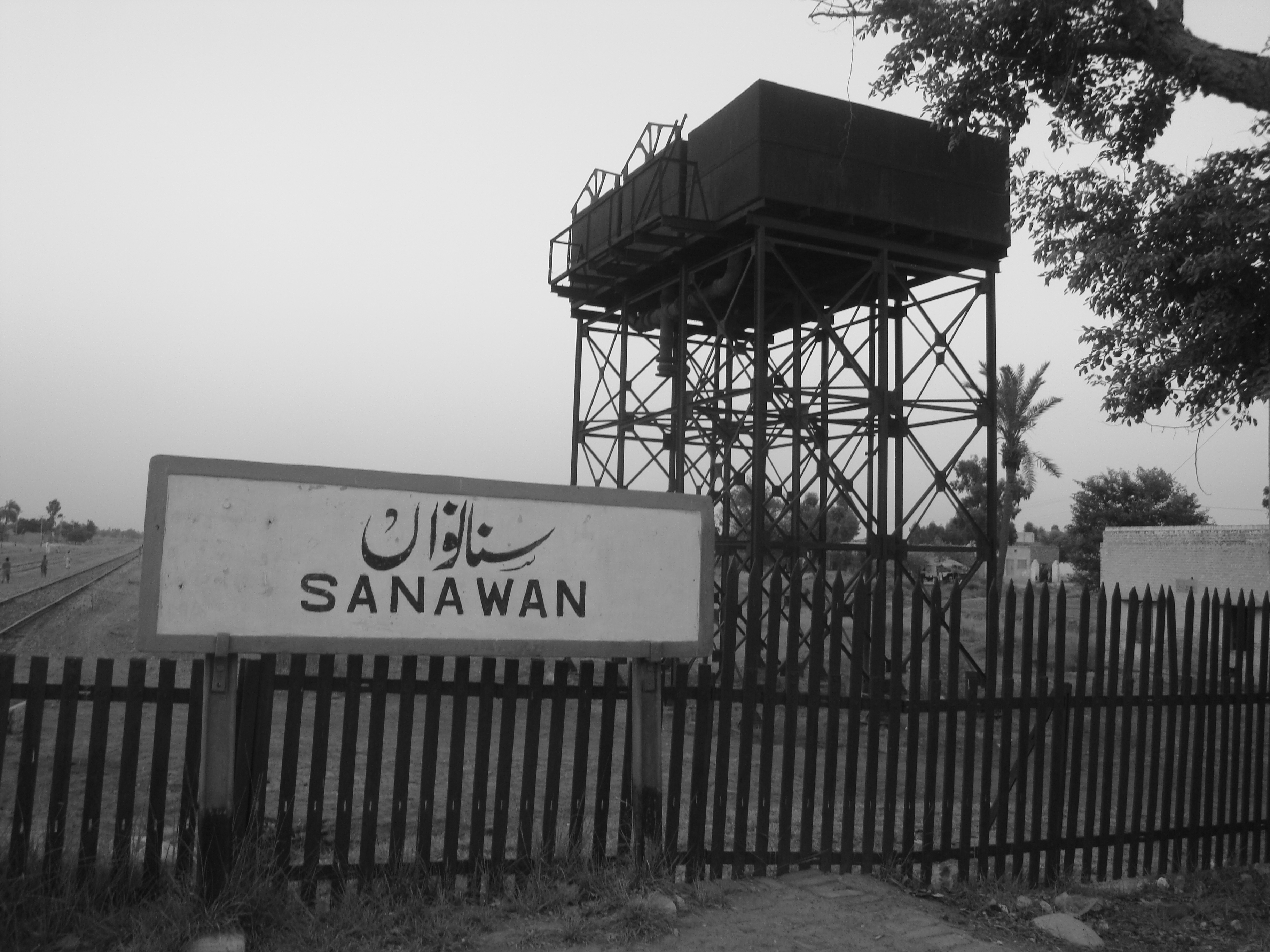 The white concrete marker that says Sanawan is located on the platform of Sanawan railyway station, an old small and beautiful railway station which was built by the Britishers.